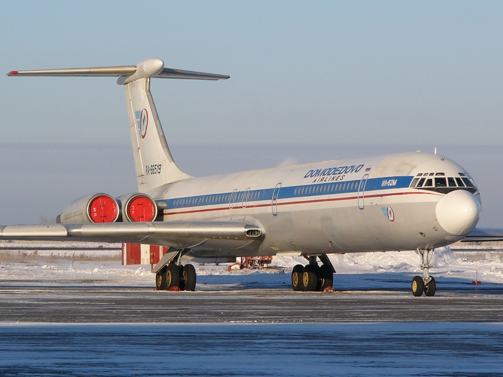 Stay before long charter to Philippins. Rare plane in OVB now.